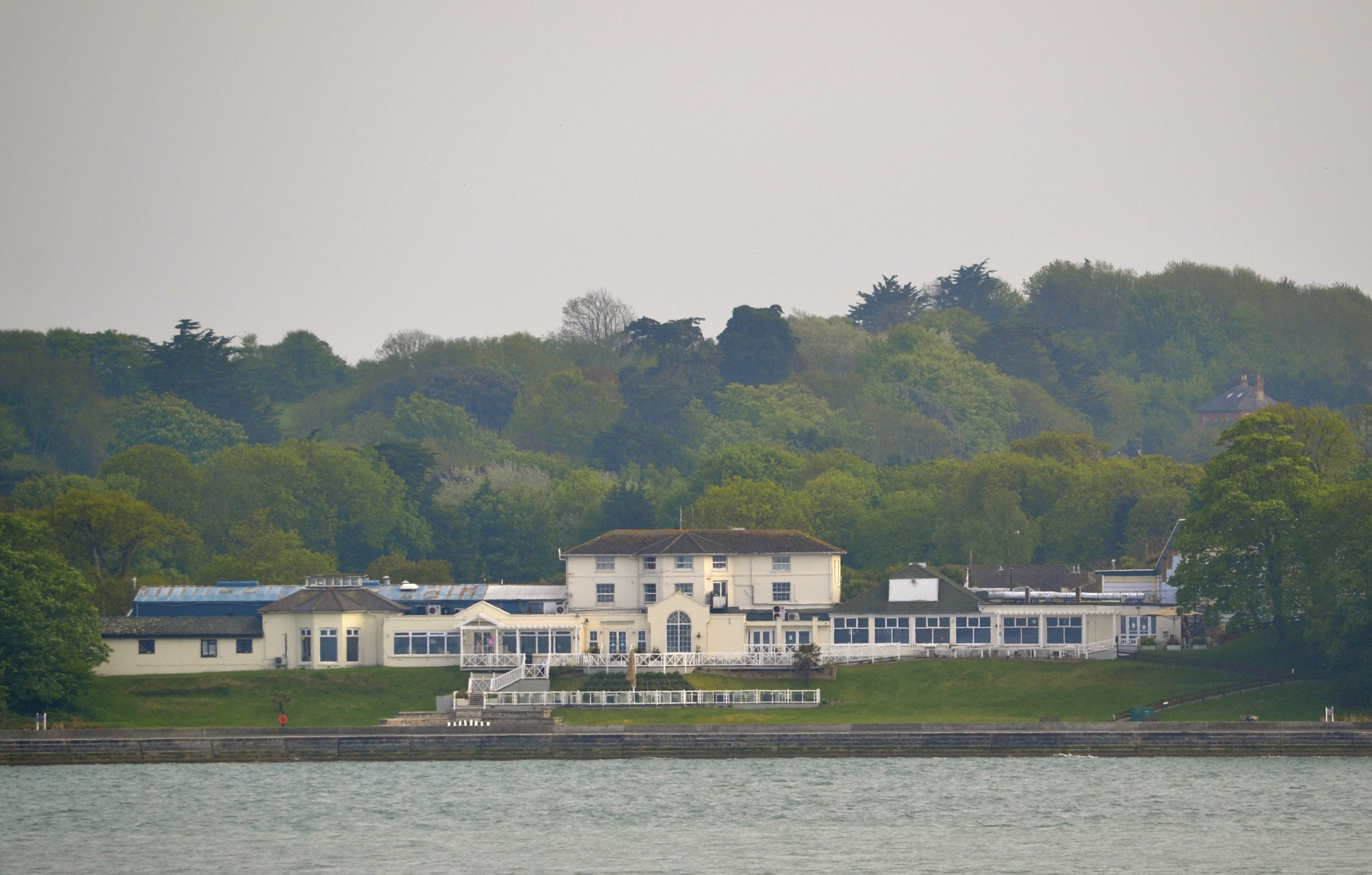 Warner's Norton Grange Coastal Village, Yarmouth, Isle of Wight